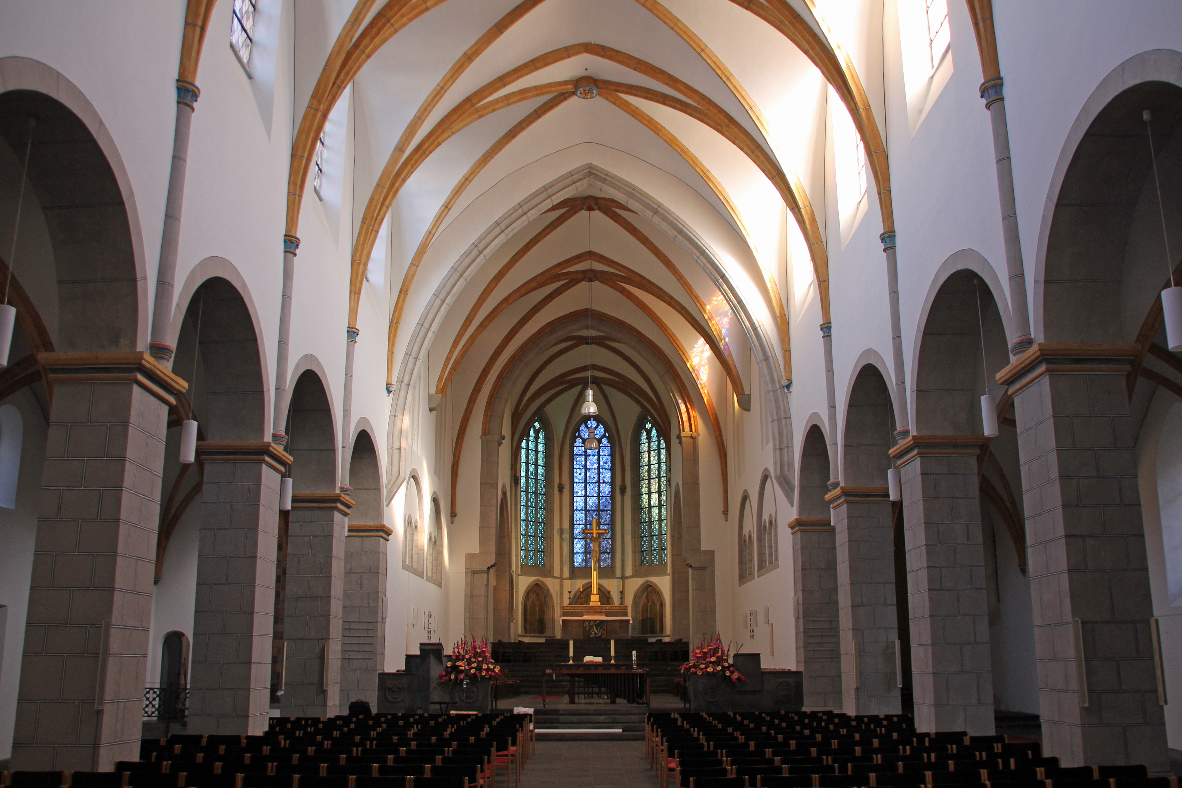 St. Florin Church in Koblenz